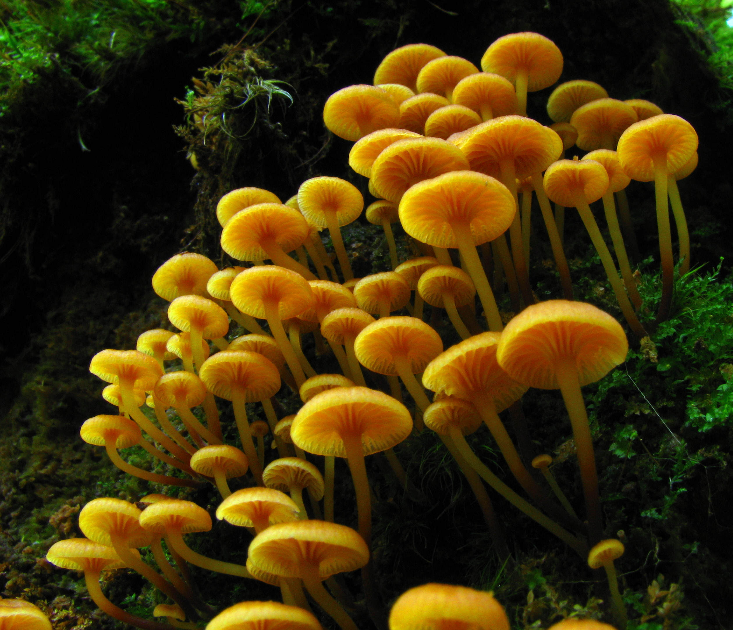 Xeromphalina campanella (Batsch) Maire Location: Cranberry Wilderness, Monongahela National Forest, West Virginia, USA For more information about this, see the observation page at Mushroom Observer.